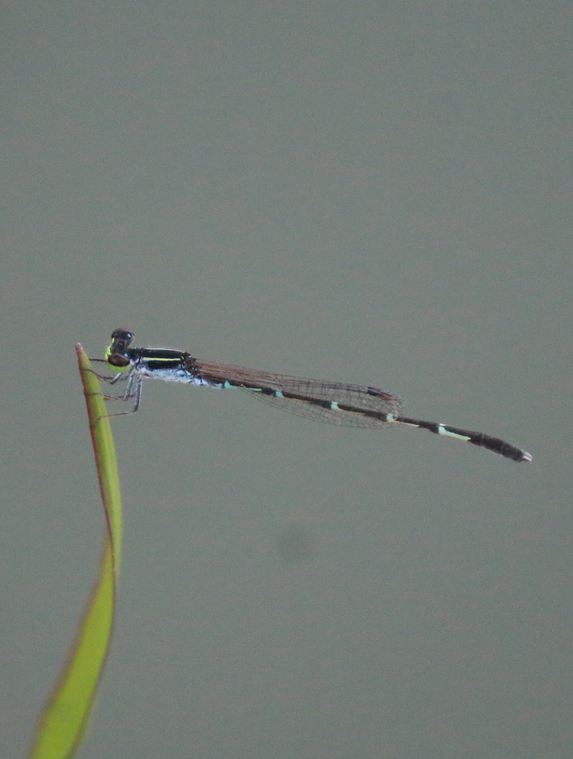 Agriocnemis splendidissima,splendid dartlet